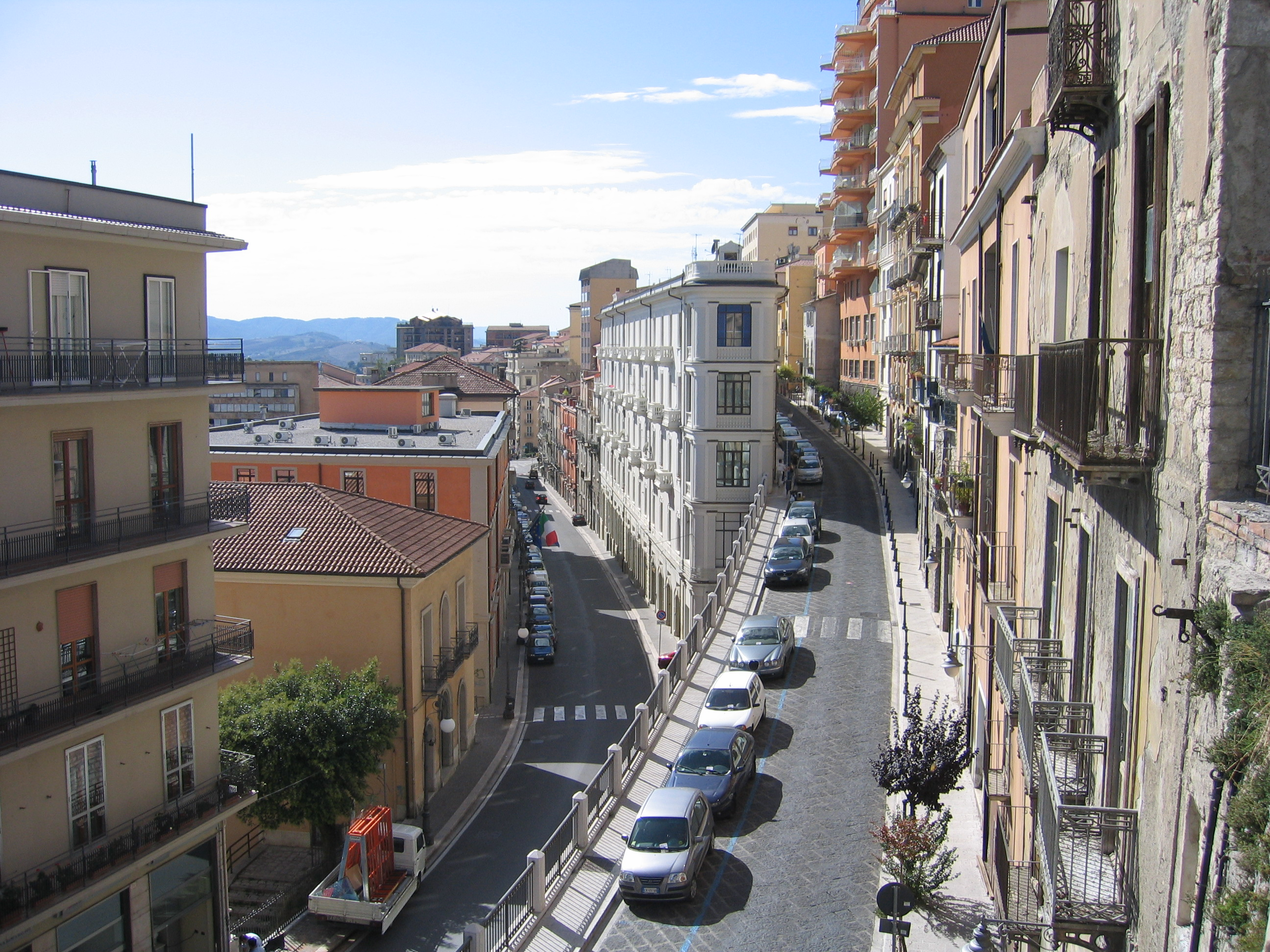 Picture of Potenza, in Basilicata (Italy)